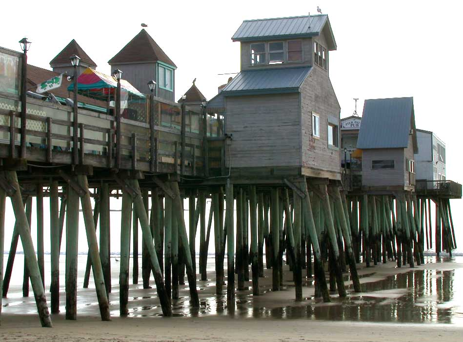 Pier at Old Orchard Beach (taken Sept. 21, 2004) © 2004 Matthew Trump